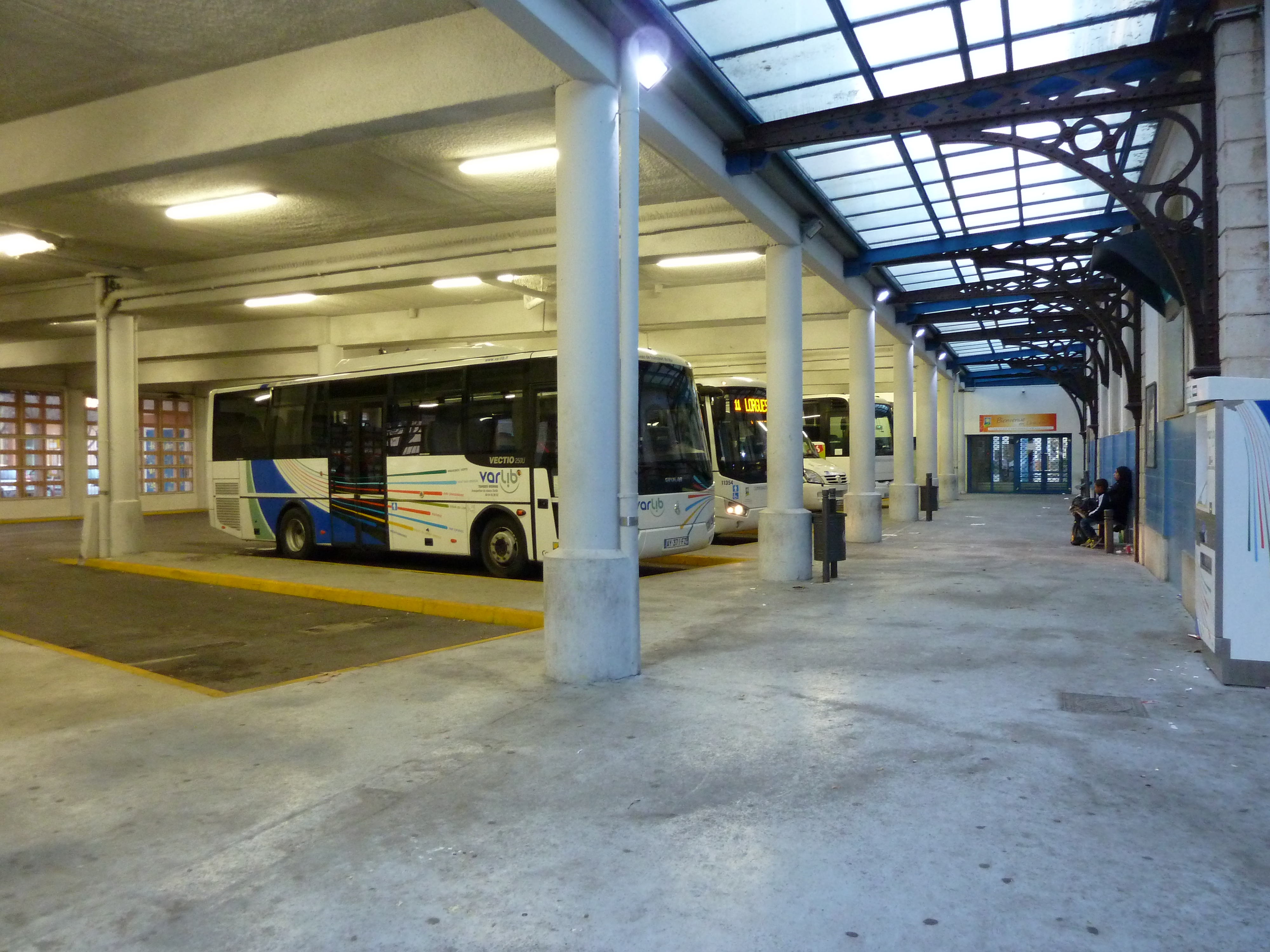 Bus station of Draguignan (indoor)